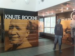 Photograph of Knute Rockne memorial at Kansas Turnpike Authority rest stop near Matfield Green, Kansas